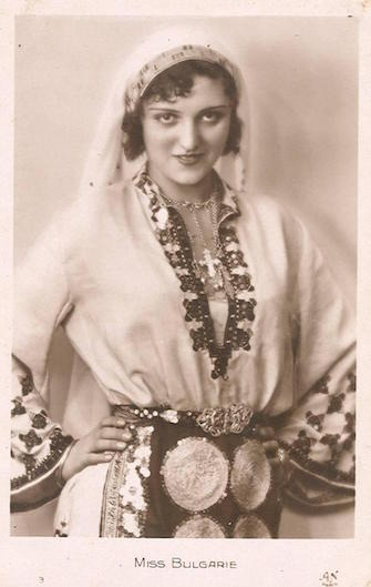 Kunka Chobanova, Miss Bulgaria 1930